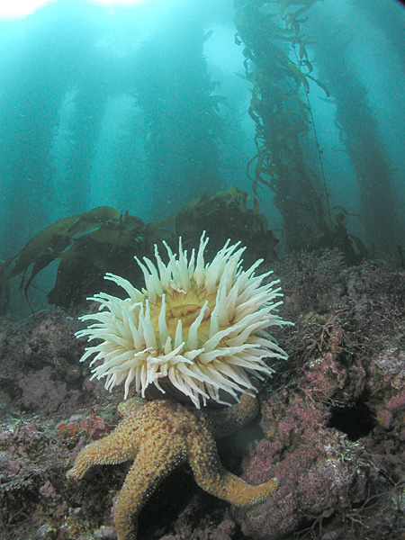 Anemone and seastar in kelp forest, Pt. Lobos, Carmel, California. Image taken by Clark Anderson/Aquaimages.